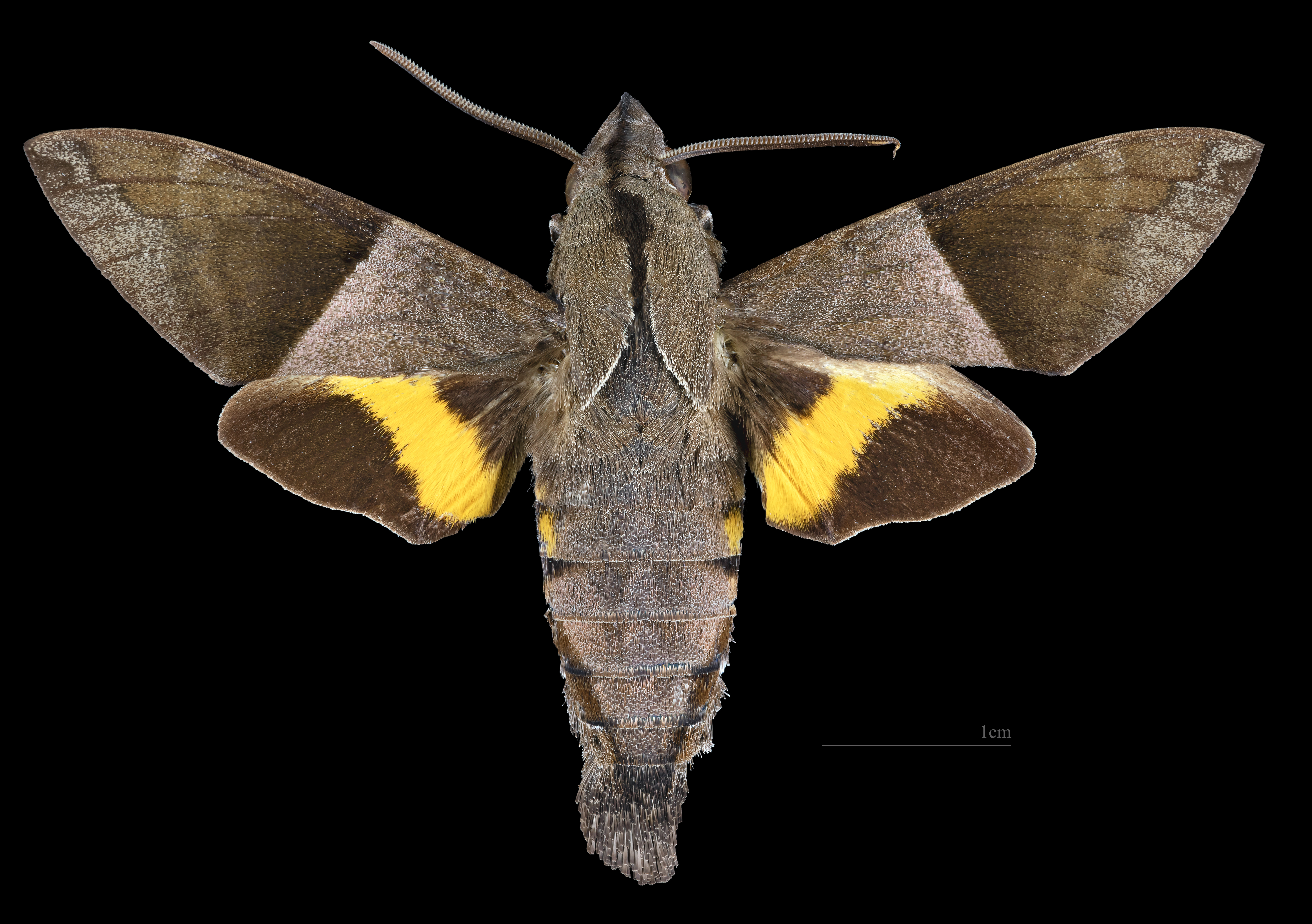 Macroglossum hemichroma - Dorsal side Collection of the Mathematician Laurent Schwartz